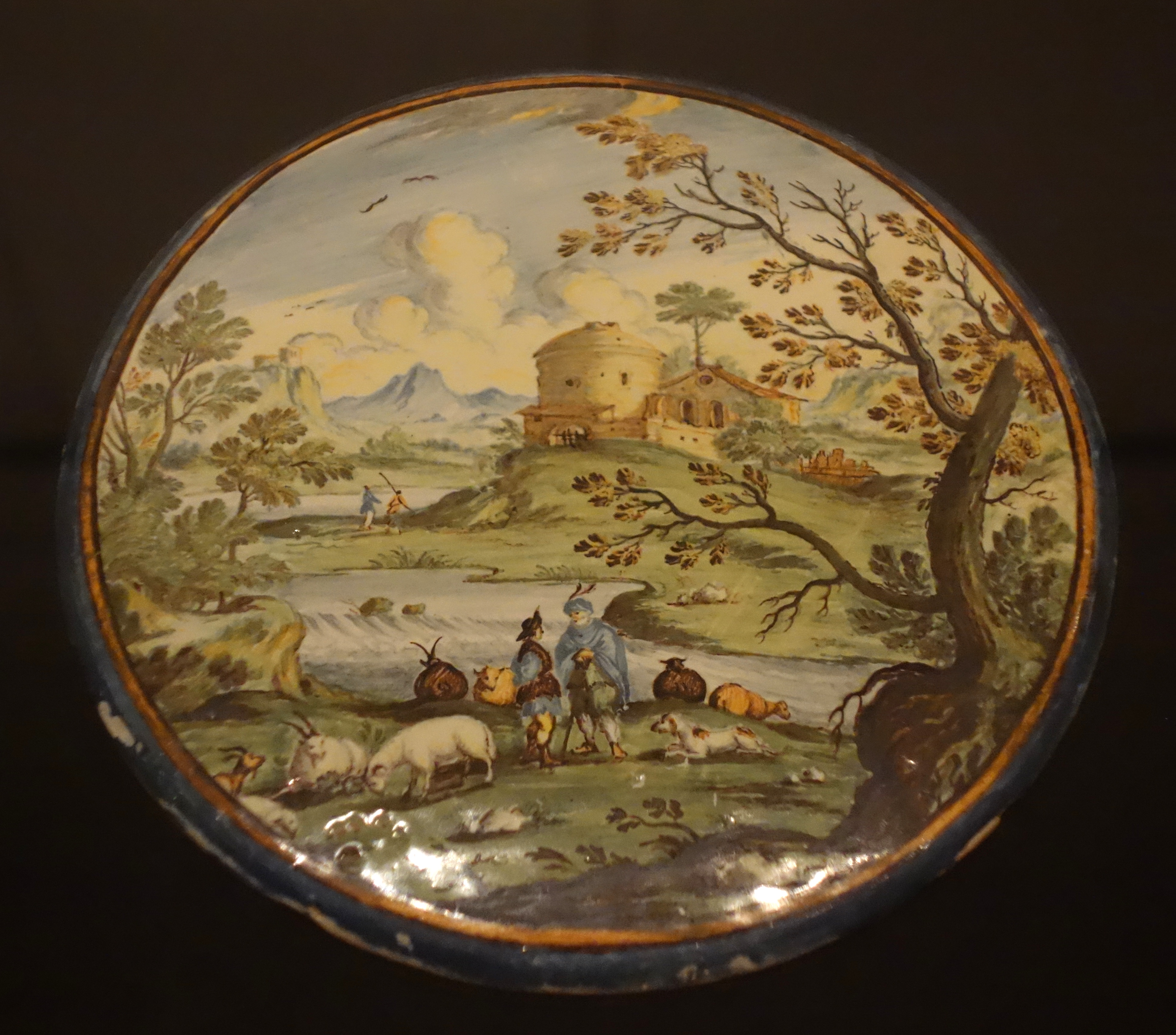 Exhibit in the Accademia Ligustica di Belle Arti, Genoa, Italy. This artwork is old enough so that it is in the public domain.